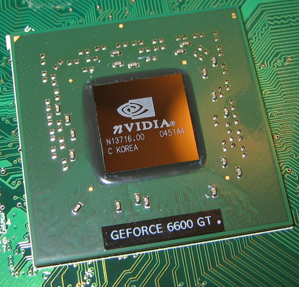 6600GT GPU